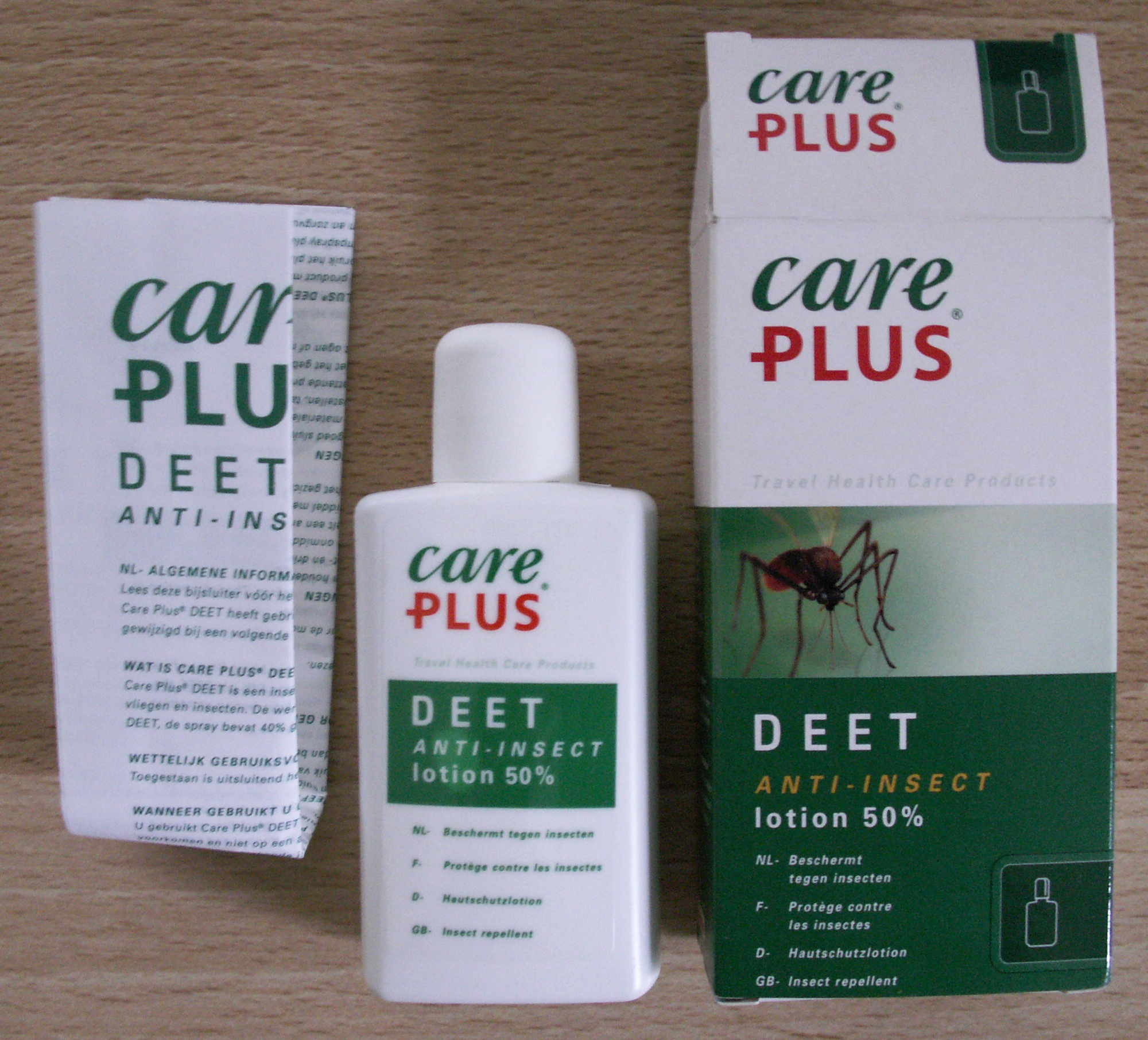 A picture of the anti-mosquito lotion "Care Plus Deet". This lotion is based on diethyl-meta-toluamide (DEET). Other good repellents based on DEET are Off and Autan.